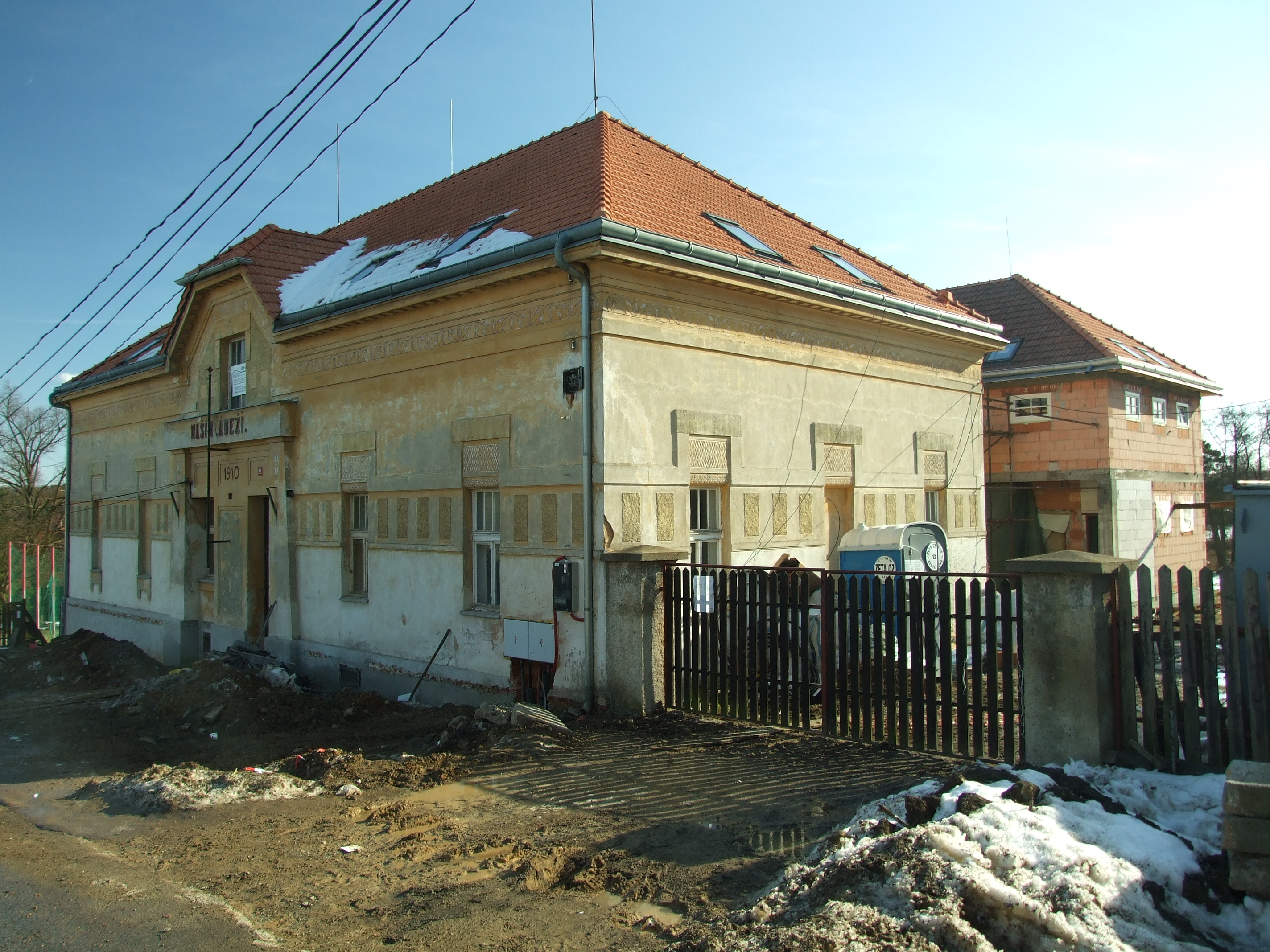 School in Hvozdnice village, located near Štěchovice and Mníšek pod Brdy, Central Bohemian Region, CZ